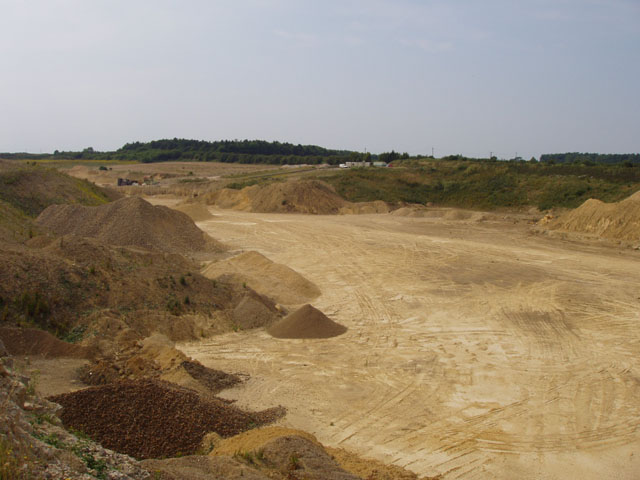 South Witham Quarry. Very large limestone quarry.